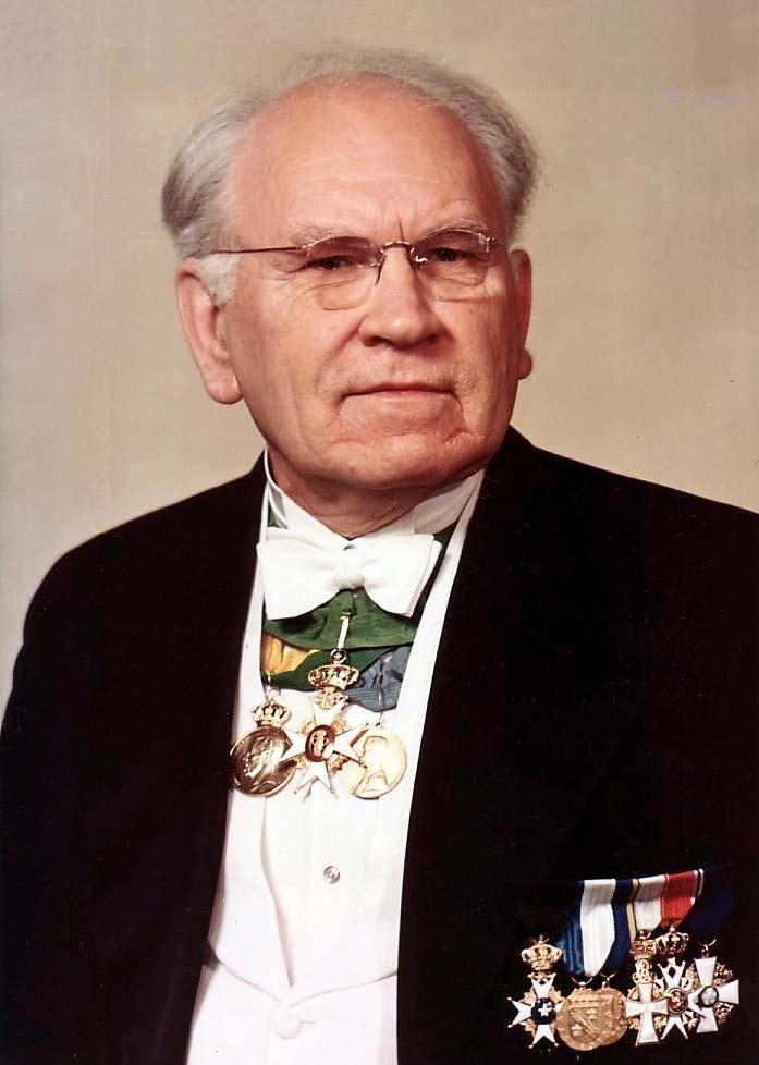 Stefan Anderson at 80, Ludvika, Sweden